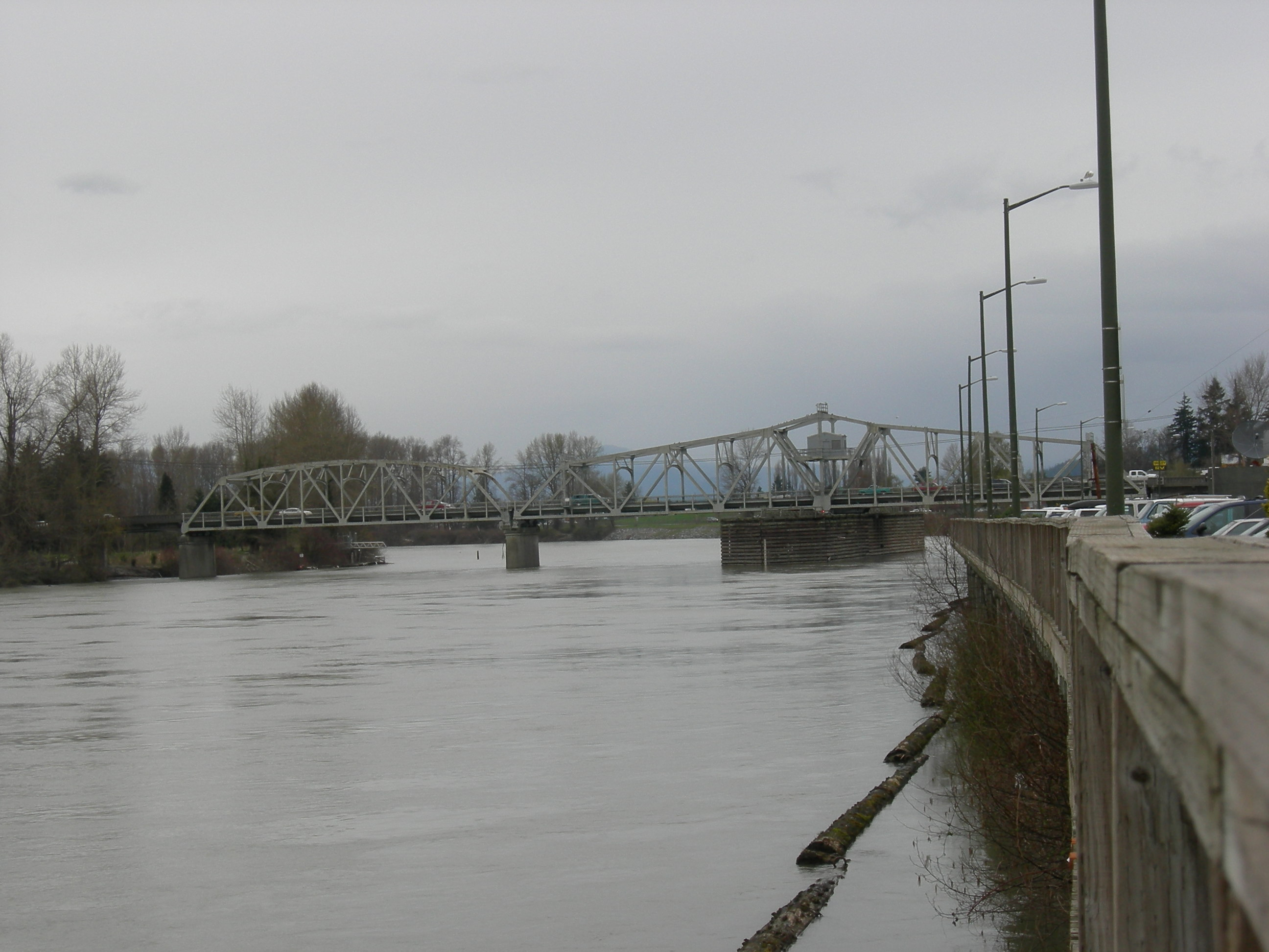 Mount Vernon, Washington. The Skagit River runs high in spring. This is moderately high water, but in no imminent danger of a flood.